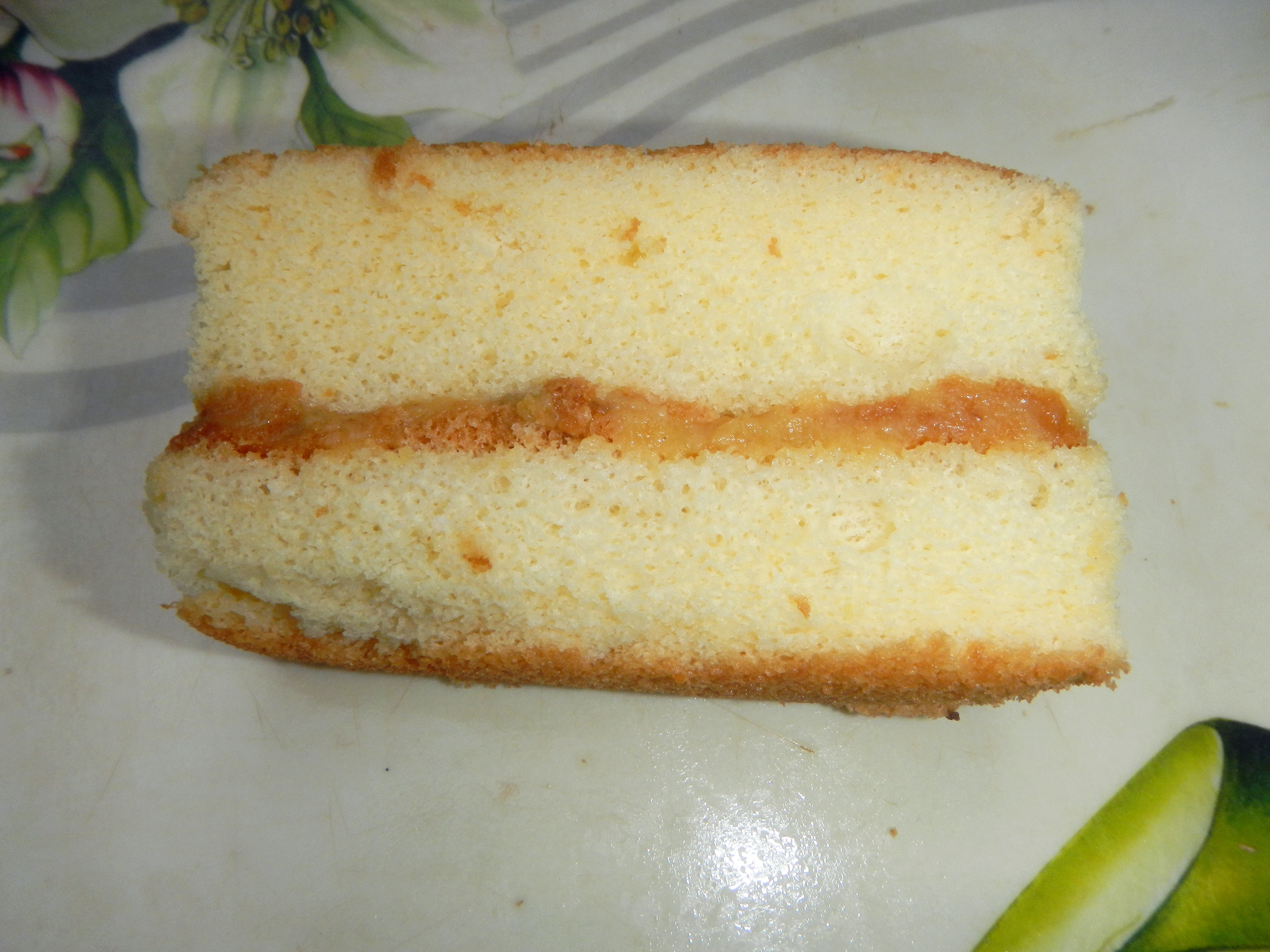 Philippine cuisine List of Philippine dishes Inipit Pionono Swiss roll Pianono and Inipit in Sitio Santissima, Poblacion Public market Barangay Poblacion 14°57'17"N 120°54'2"E, Baliuag, Bulacan, Bulacan province (Note: Judge Florentino Floro, the owner, to repeat, Donor Florentino Floro of all these photos hereby donate gratuitously, freely and unconditionally all these photos to and for Wikimedia Commons, exclusively, for public use of the public domain, and again without any condition whatsoever).